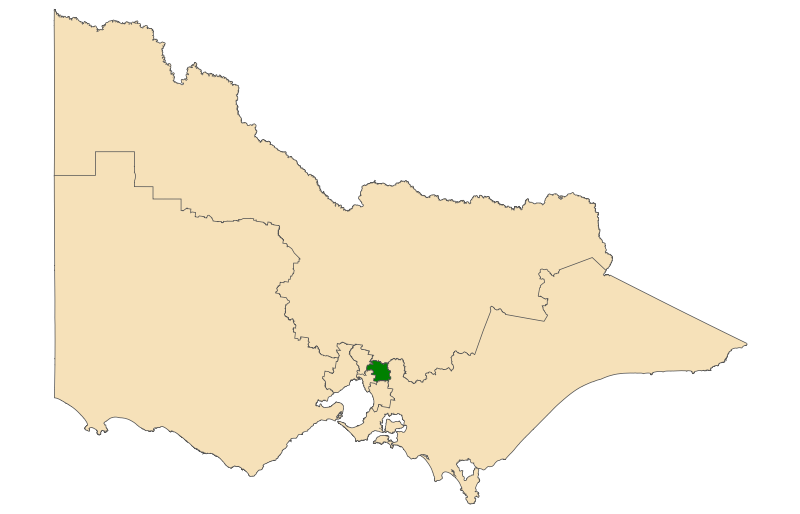 Location of the Victorian Legislative Council Region of Eastern Metropolitan (dark green).